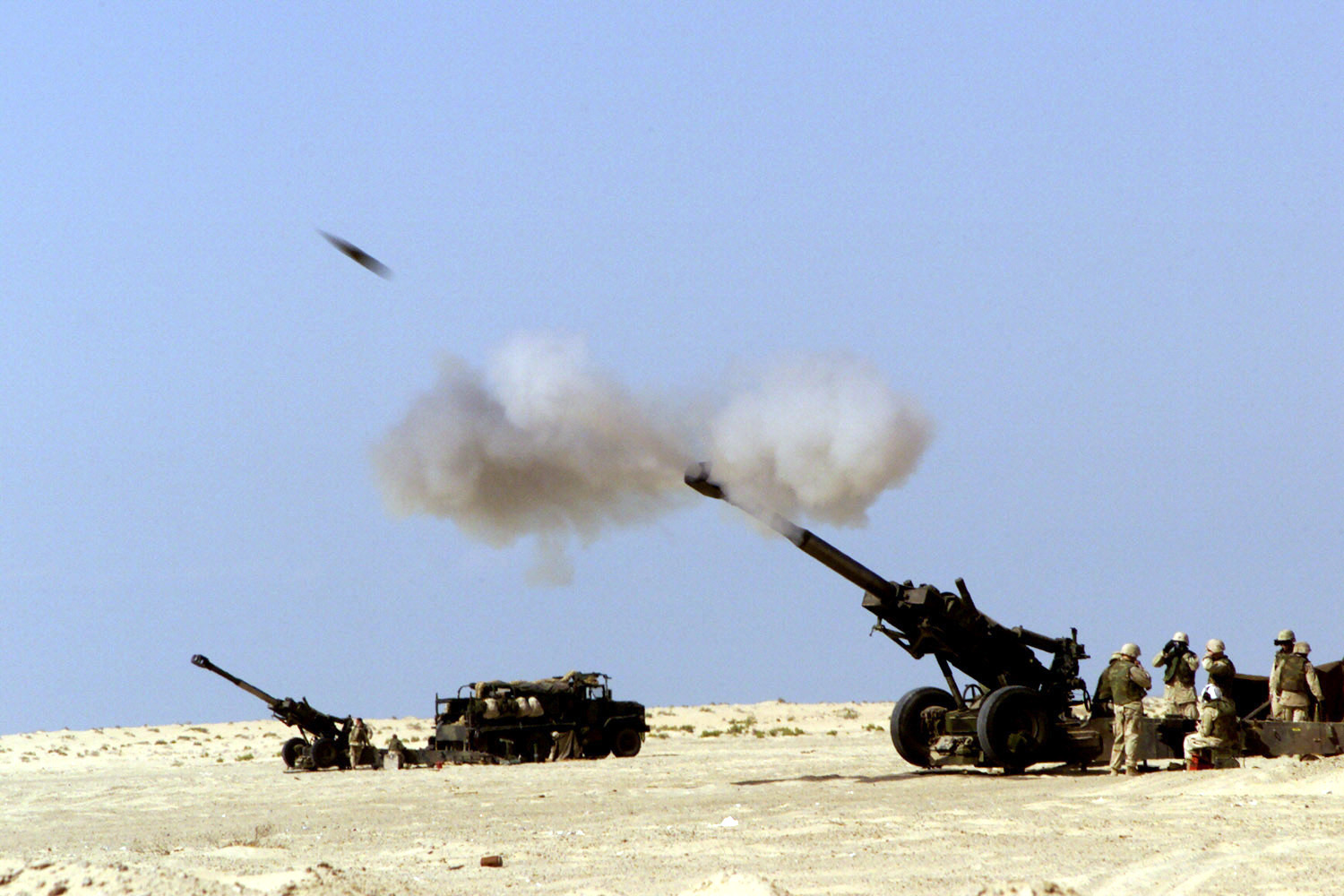 A 155 mm artillery shell hurtles out of the barrel of a 11th Marine Regiment M-198 howitzer during live fire and maneuver training on November 20, 2000, at the Al Hamra Training Area in the United Arab Emirates. U.S. Marines from the 13th Marine Expeditionary Unit (Special Operations Capable) are deployed from the USS Tarawa (LHA-1) to the training area for Exercise Iron Magic.